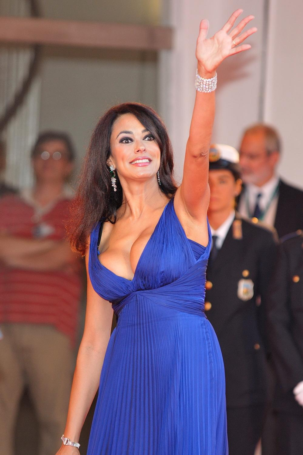 Actress Maria Grazia Cucinotta - 66th Venice International Film Festival.